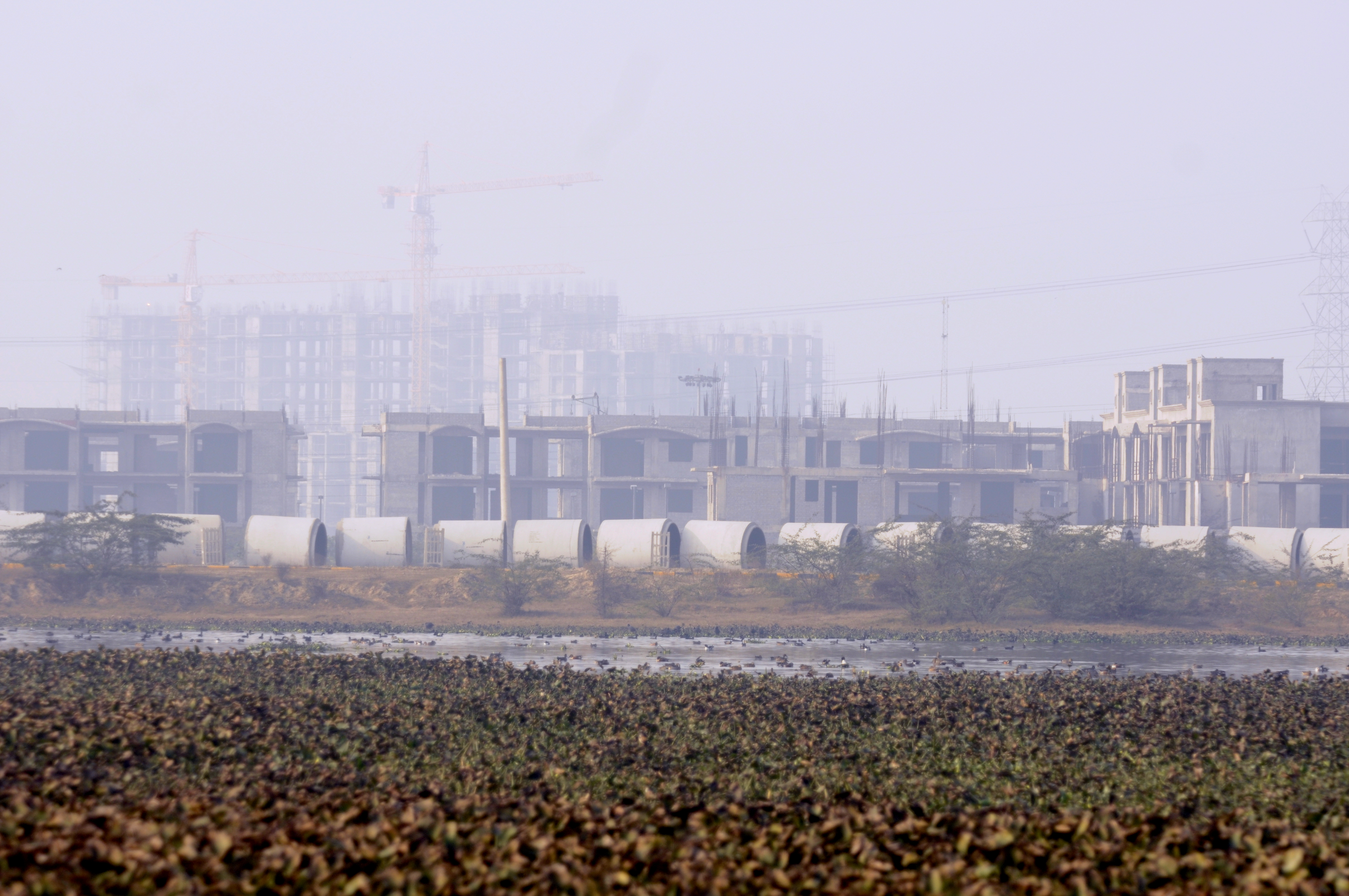 View of Basai Wetland with aquatic vegetation, waterbody with Eurasian Coot, Northern Shoveler, Northern Pintail and other ducks, and urbanising areas in the backdrop, Gurgaon (Gurugram), Haryana, India